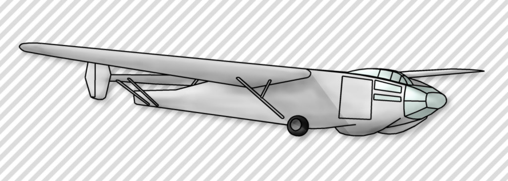 sketch of DFS 331